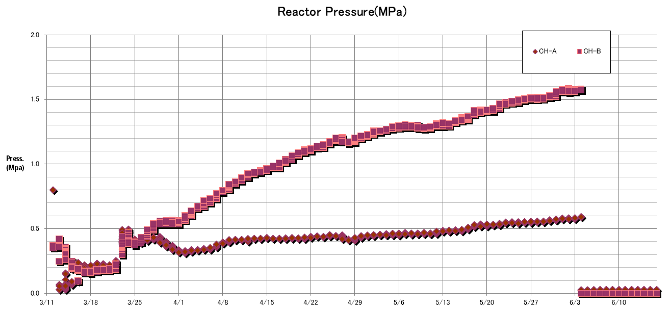 Fukushima I Nuclear Power Station, Pressure in Unit 1 Reactor Pressure Vessel from March 11 to June 16, 2011; plot of data published by Tepco [1]